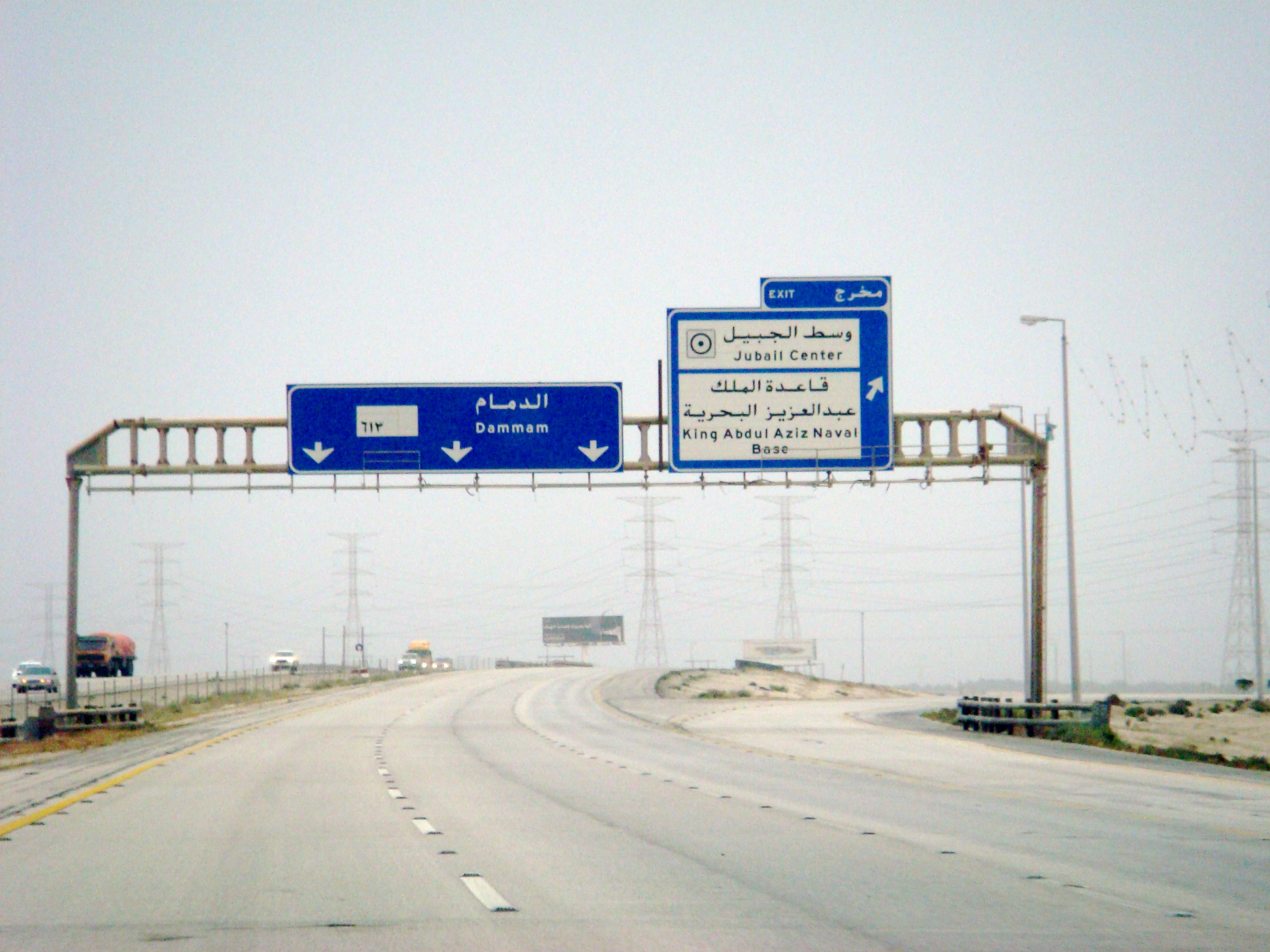 Sign to Dammam